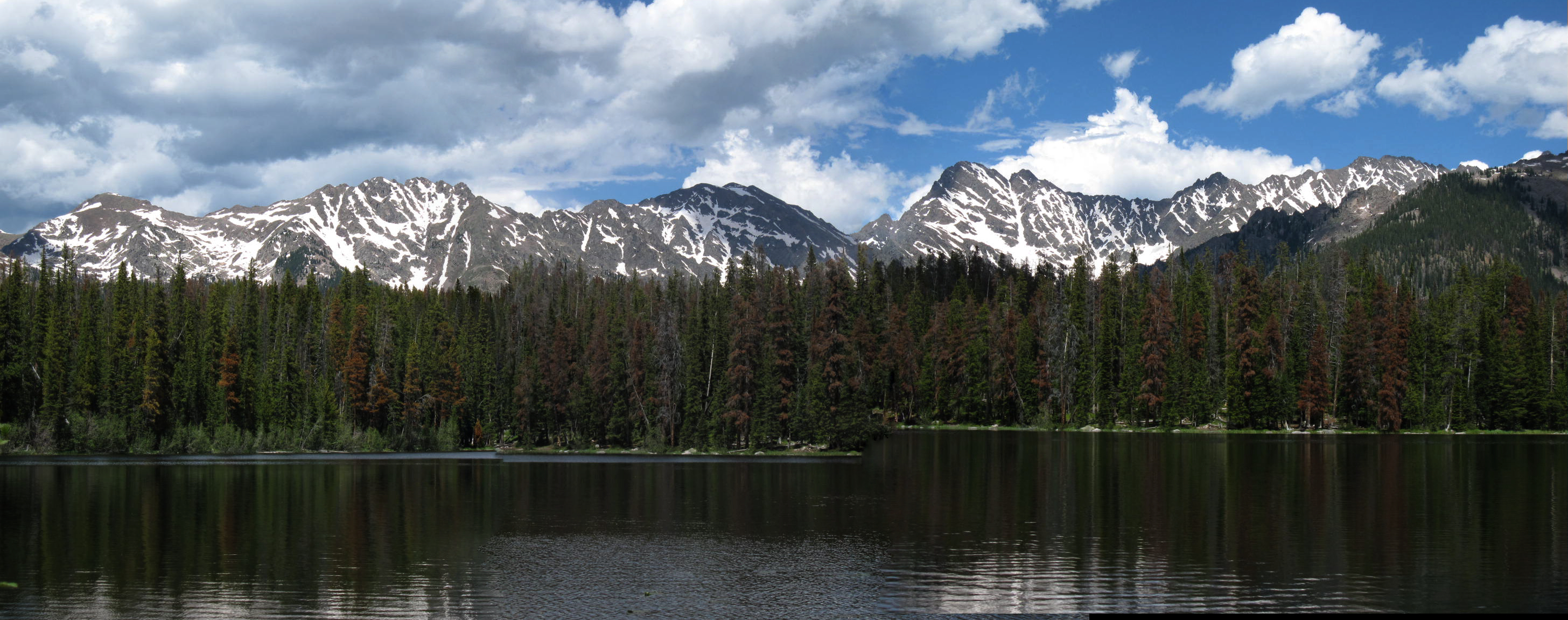 Lost Lake Panoramic facing north (Eagle, County, CO)